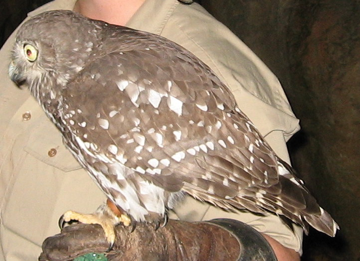 The Barking Owl or Winking Owl (Ninox connivens) is a nocturnal bird species native to mainland Australia and parts of Papua New Guinea. They are a medium-sized brown owl and have an extremely characteristic voice that can range from a barking dog noise to a shrill woman-like scream of great intensity. Barking owls are often said to be the source to the myths and legends surrounding the Bunyip.